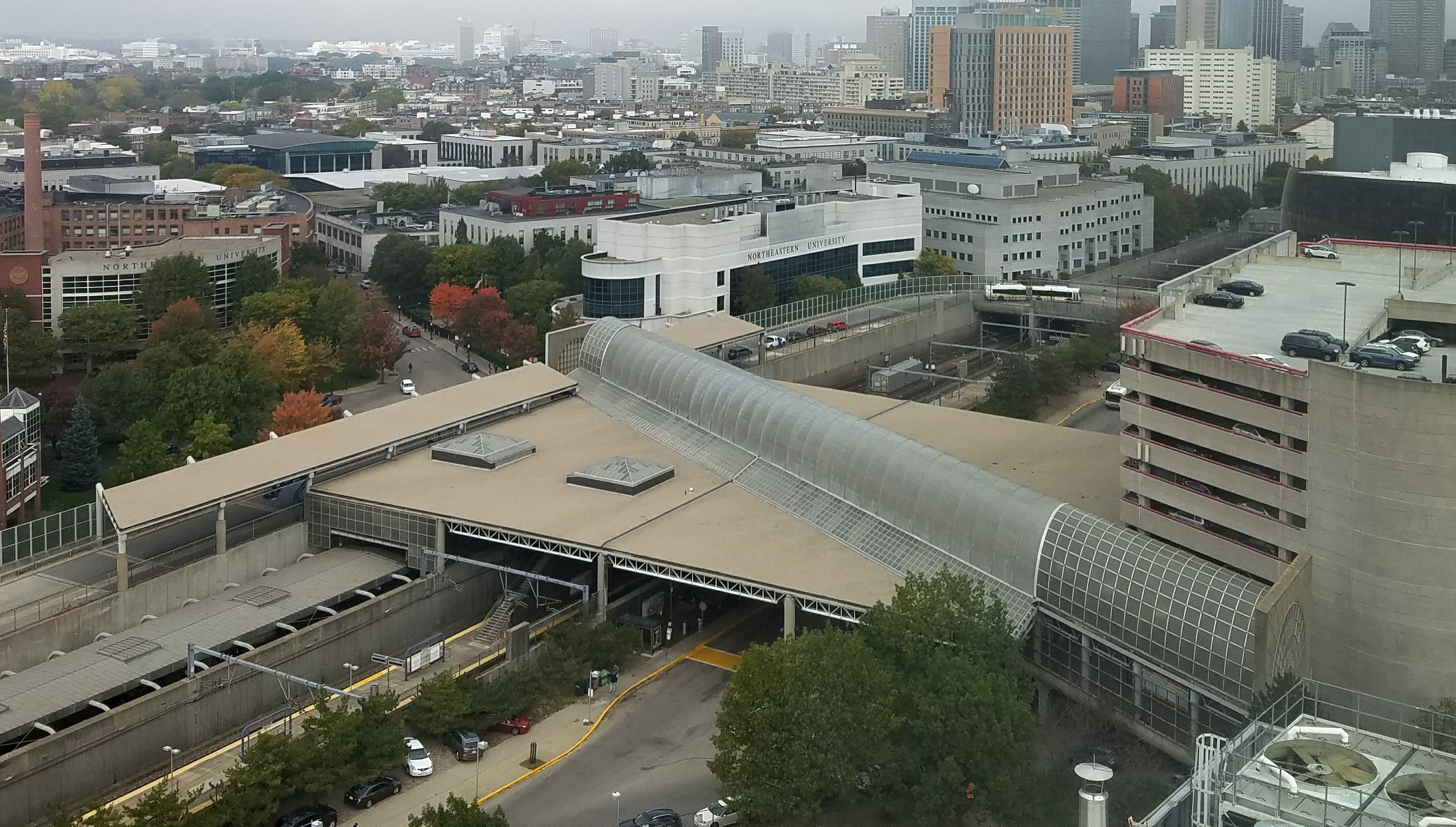 Ruggles station as viewed from above in the West tower of International Village residence halls at Northeastern University